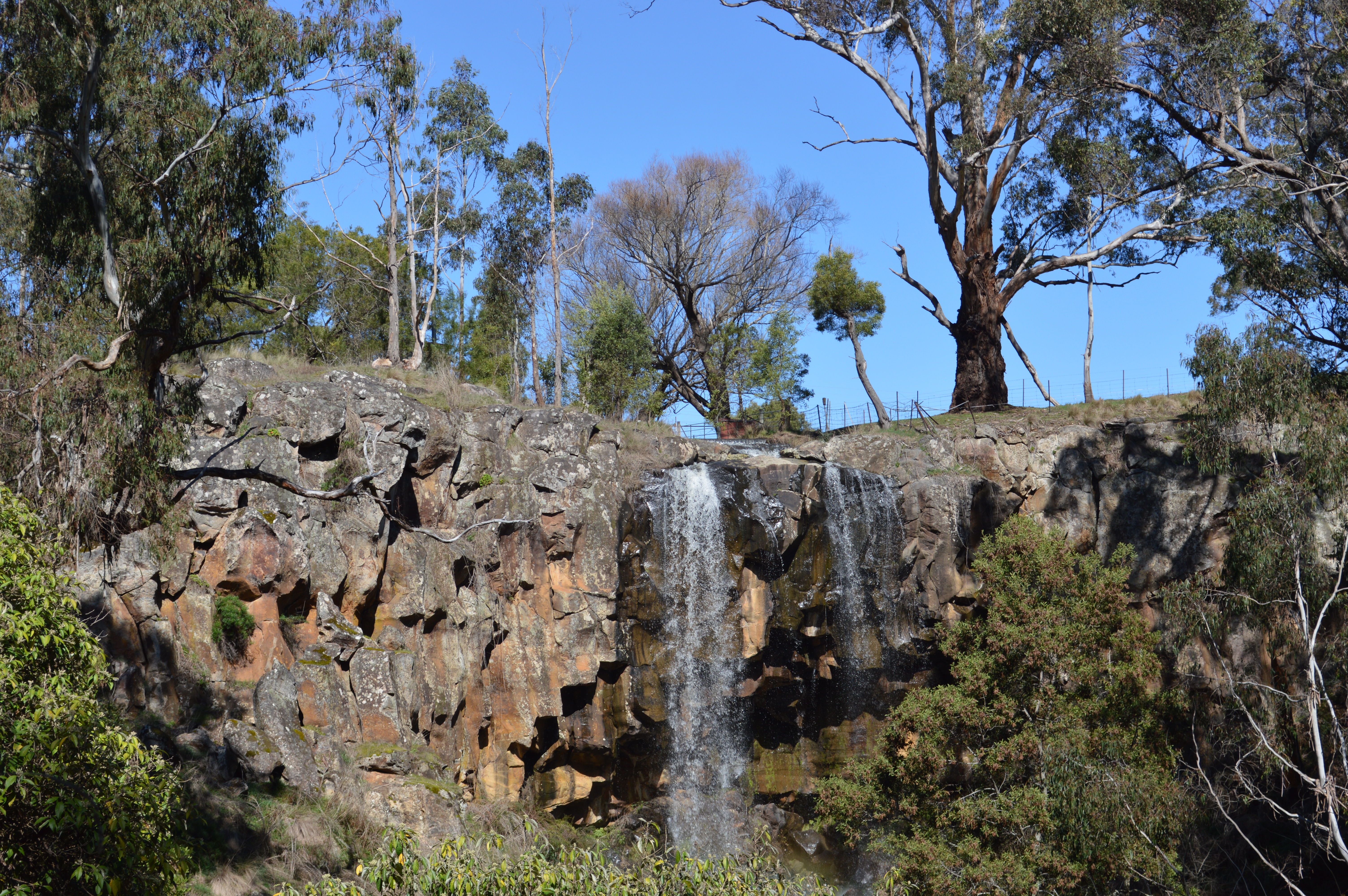 Sailors Falls, a waterfall at Sailors Falls, Victoria near Daylesford, Victoria